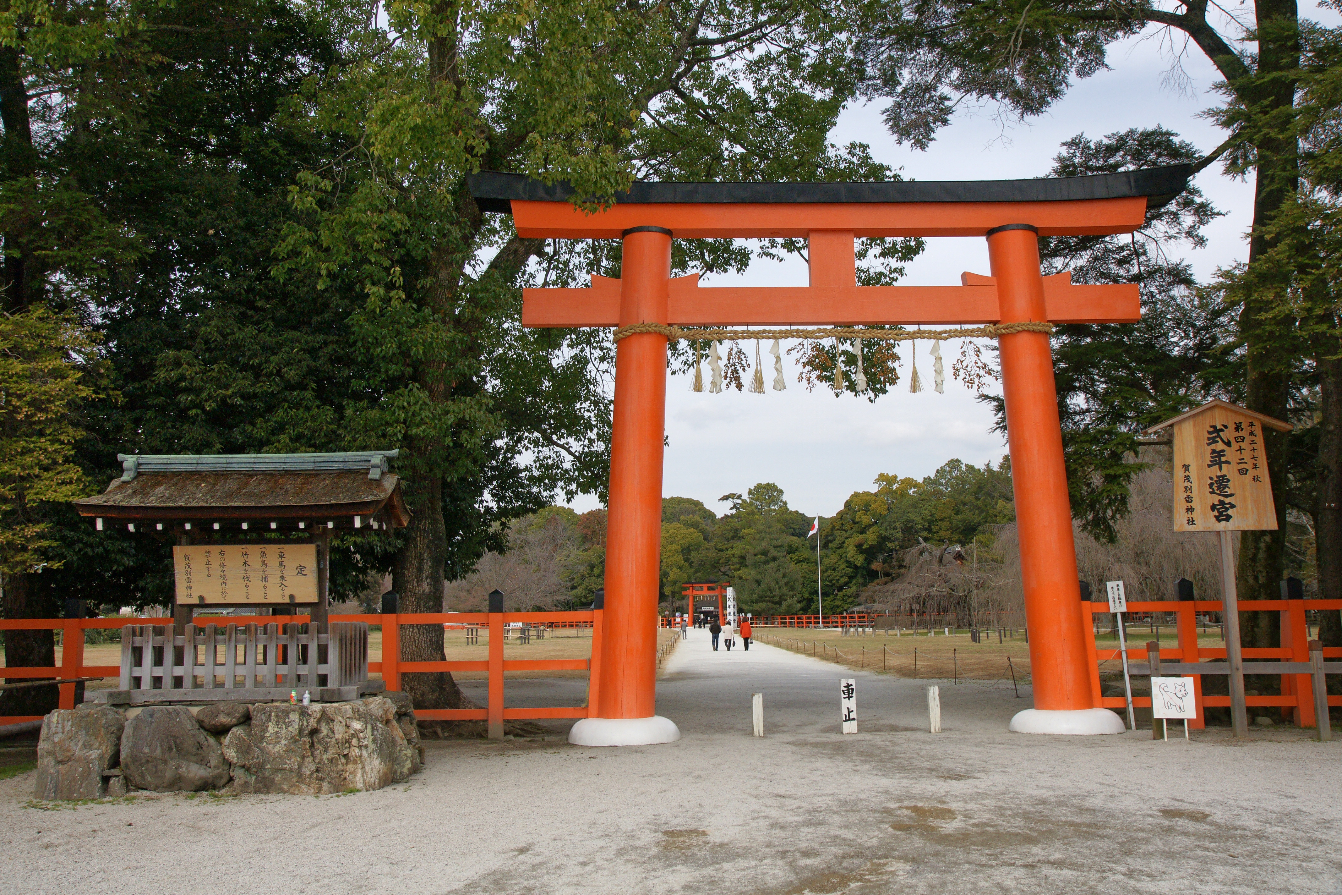 Kamowakeikazuchi-jinja (Kamigamo-jinja) in Kita-ku, Kyoto, Kyoto Prefecture, Japan